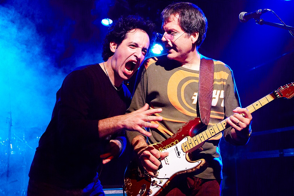 live @ Hamburg Markthalle